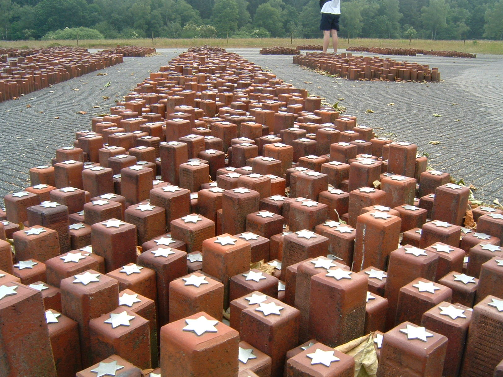 An image of a monument at former German Nazi camp Westerbork in the Netherlands. Each stone represents a single person who had stayed at Westerbork and died in a German Nazi camp.